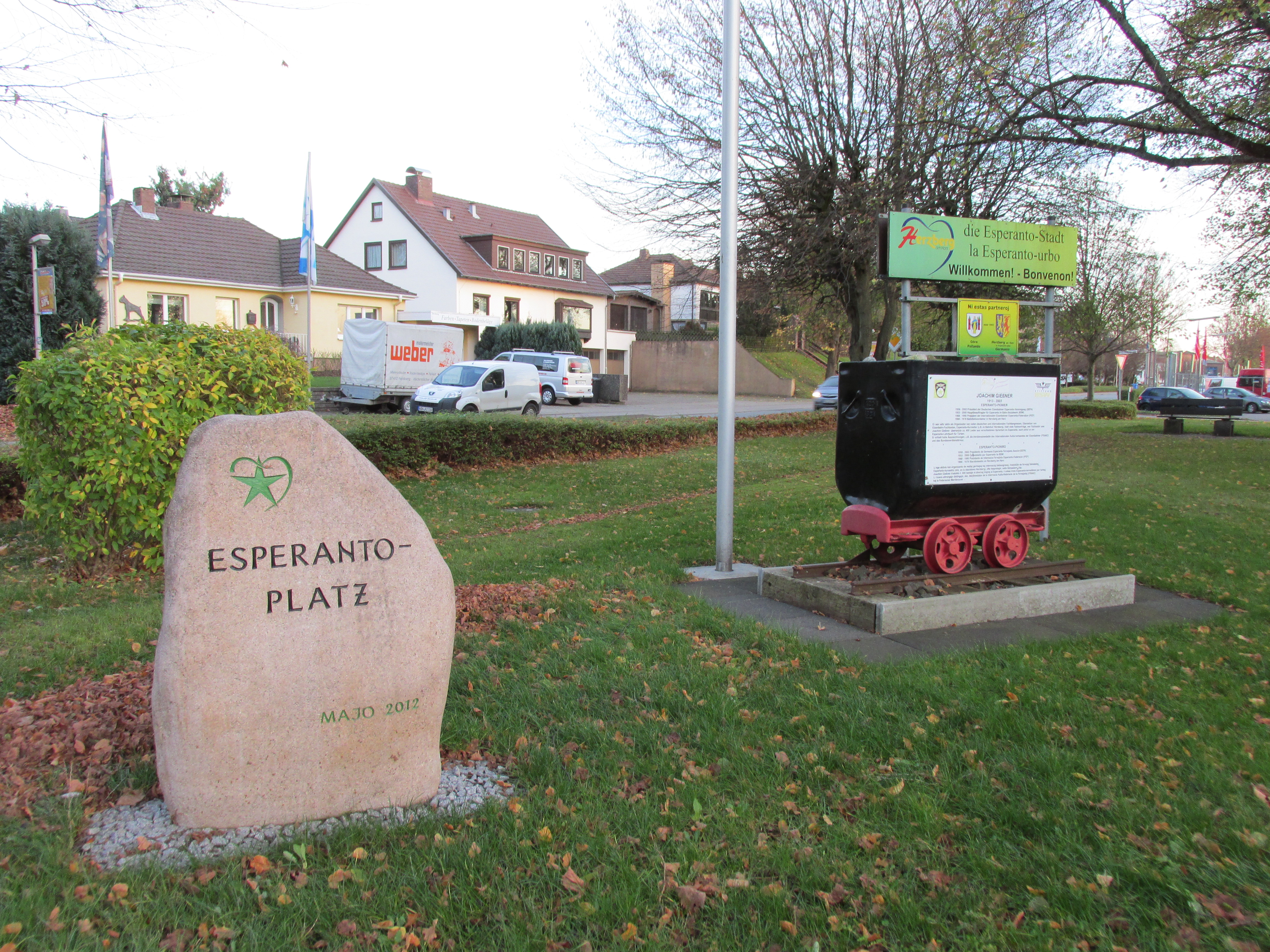 Esperanto square, Herzberg am Harz, Germany